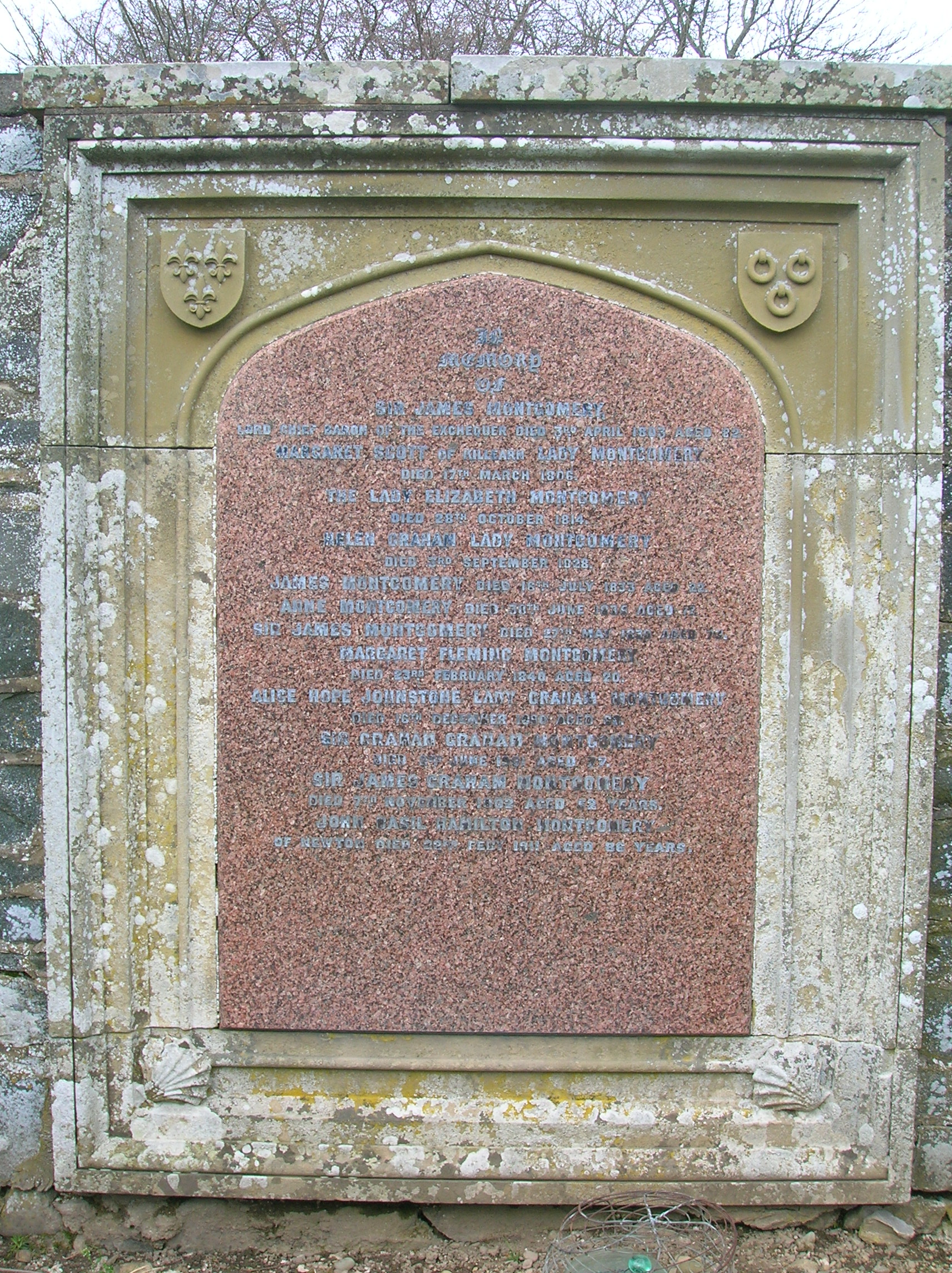 Gravestone at Stobo Kirk of Sir James Montgomery, Lord Chief Baron of the Exchequer and his wife Margaret Scott of Killearn.